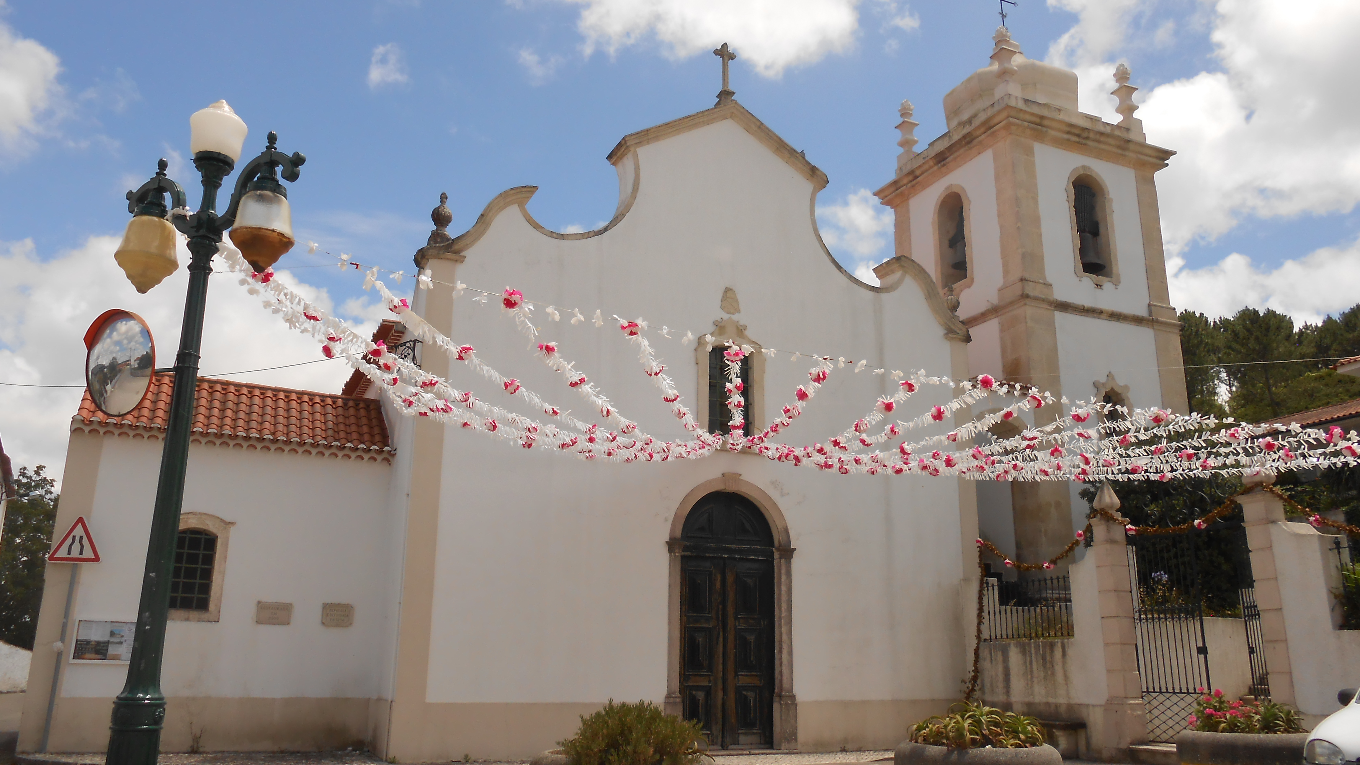 The main church of the parish of Alhadas, Igreja de São Pedro.